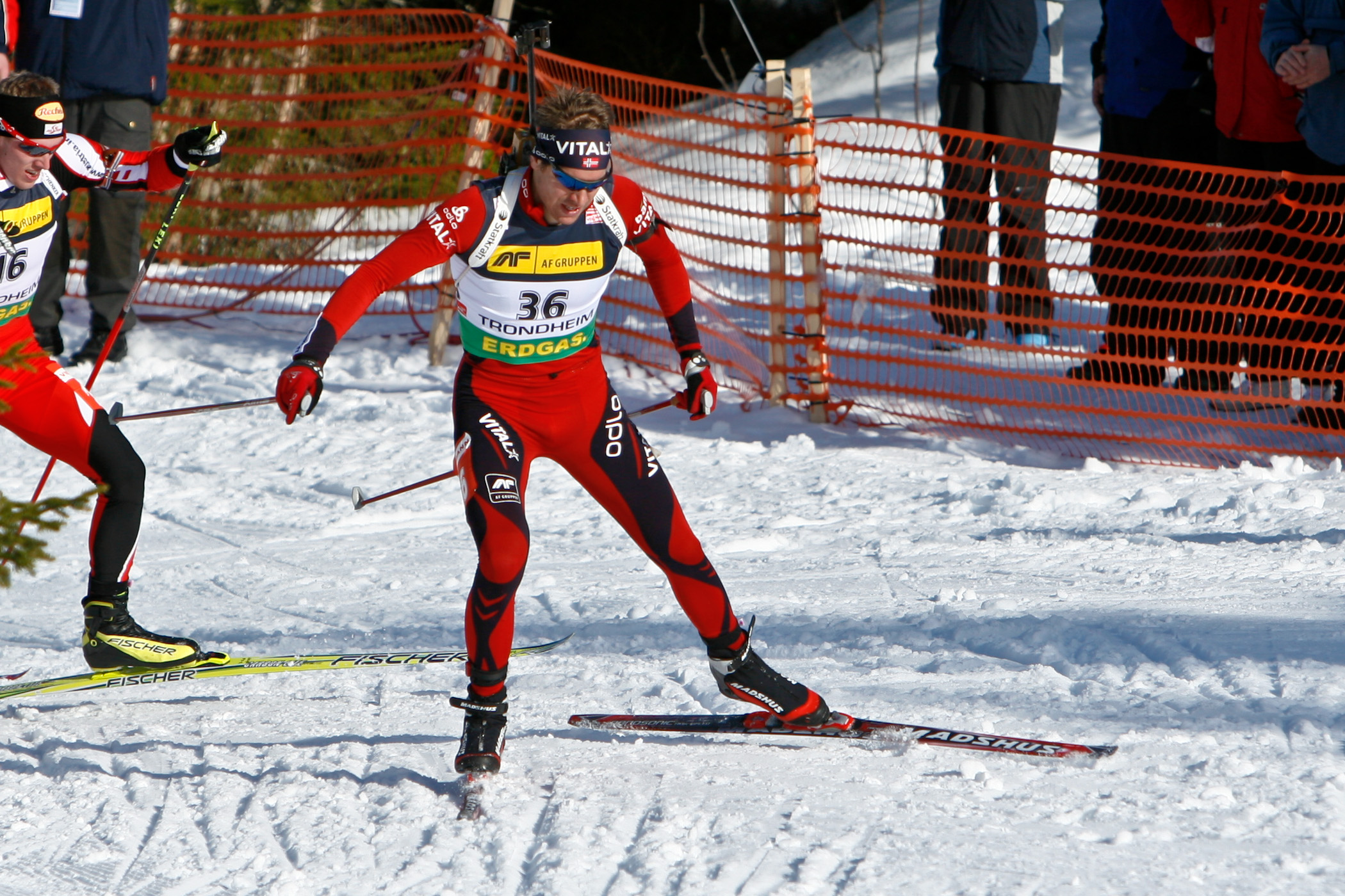 Emil Hegle Svendsen at the IBU World Cup Biathlom Trondheim 19 March 2009. The license on this photo was changed on 18 February 2010 from All rights reserved to Creative Commons (CC-BY-SA). At the same time, a bigger version (2100x1400px) of the photo replaced the old one. If you use this picture, remember to give credit according to the license (